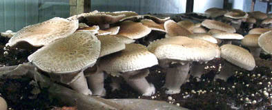 Portobello mushrooms